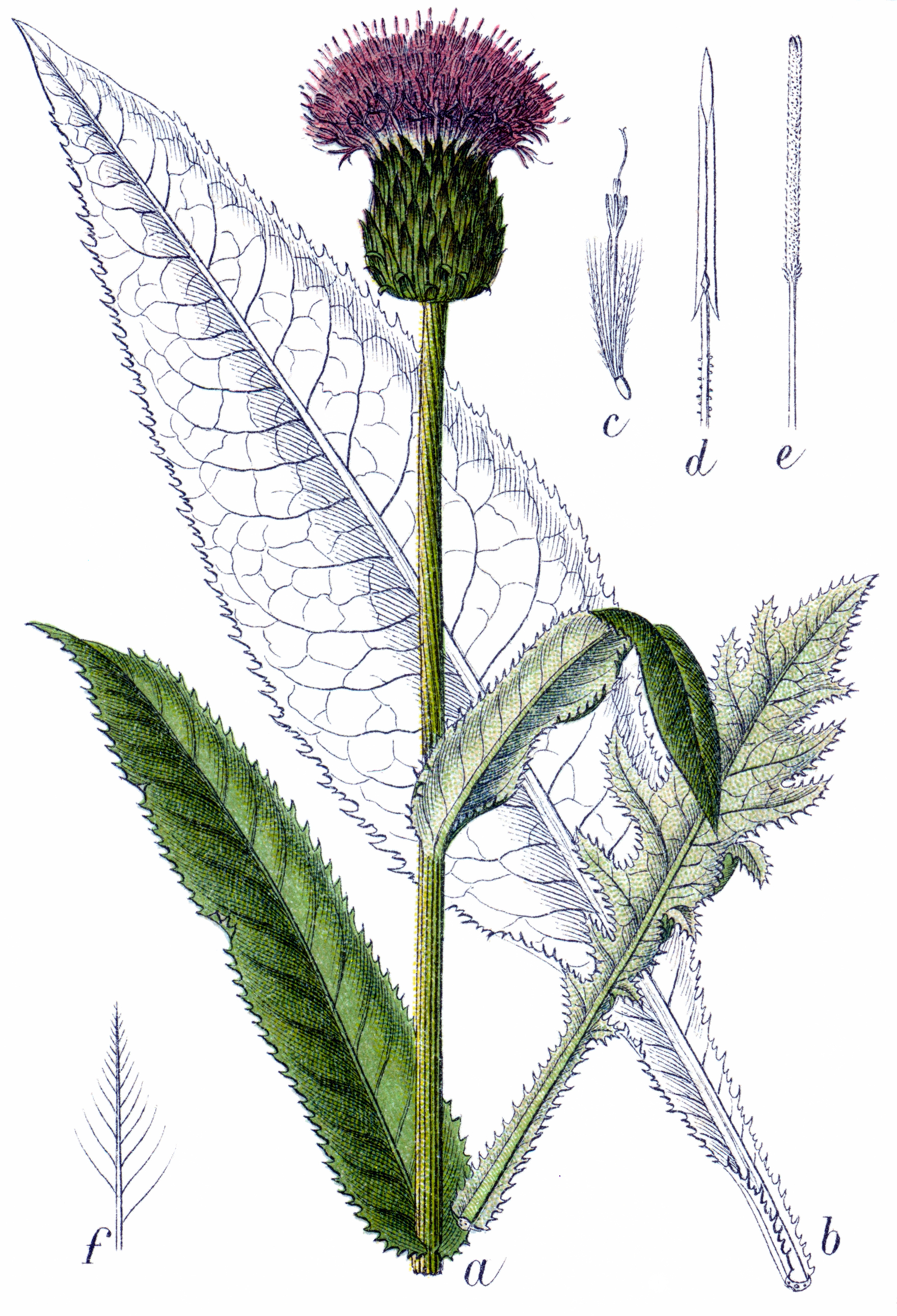 Cirsium heterophyllum (L.) Hill, syn. Carduus heterophyllus L. Original Caption